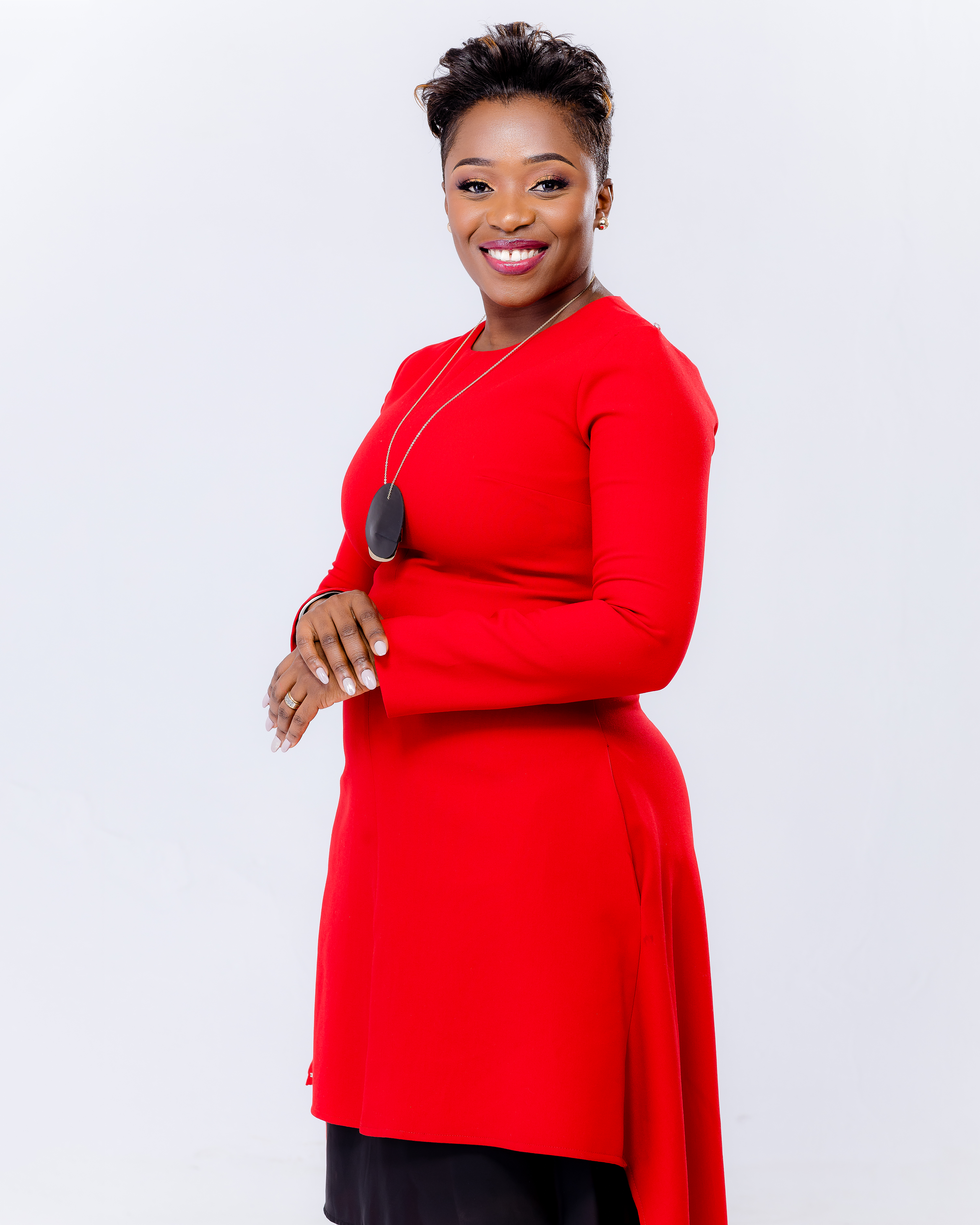 Janet Manyowa Photoshoot